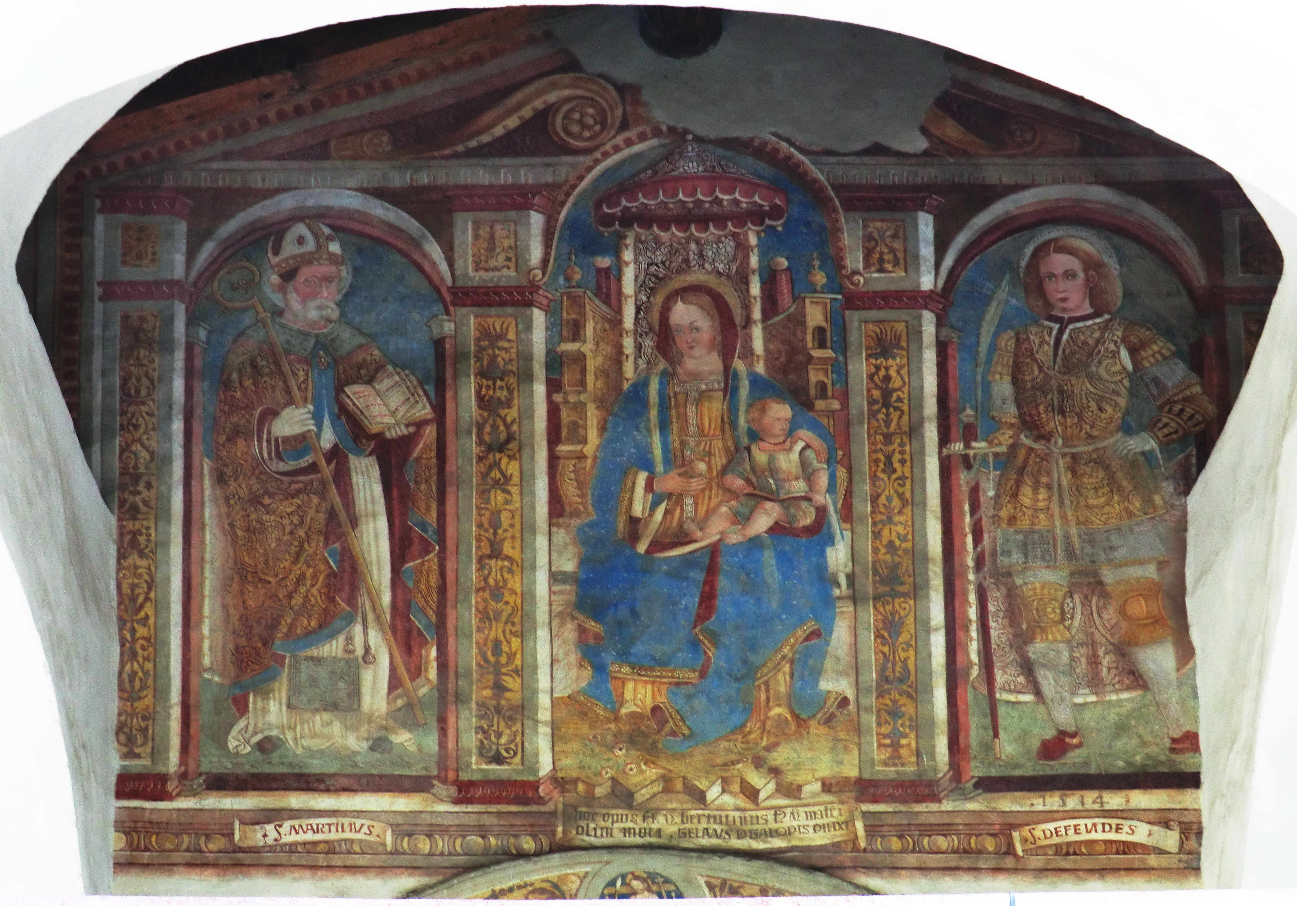 San Defendente (Clusone) Native nameSan Defendente (Clusone)LocationClusone, Lombardy, ItalyCoordinates45° 53′ 26.76″ N, 9° 57′ 16.39″ E